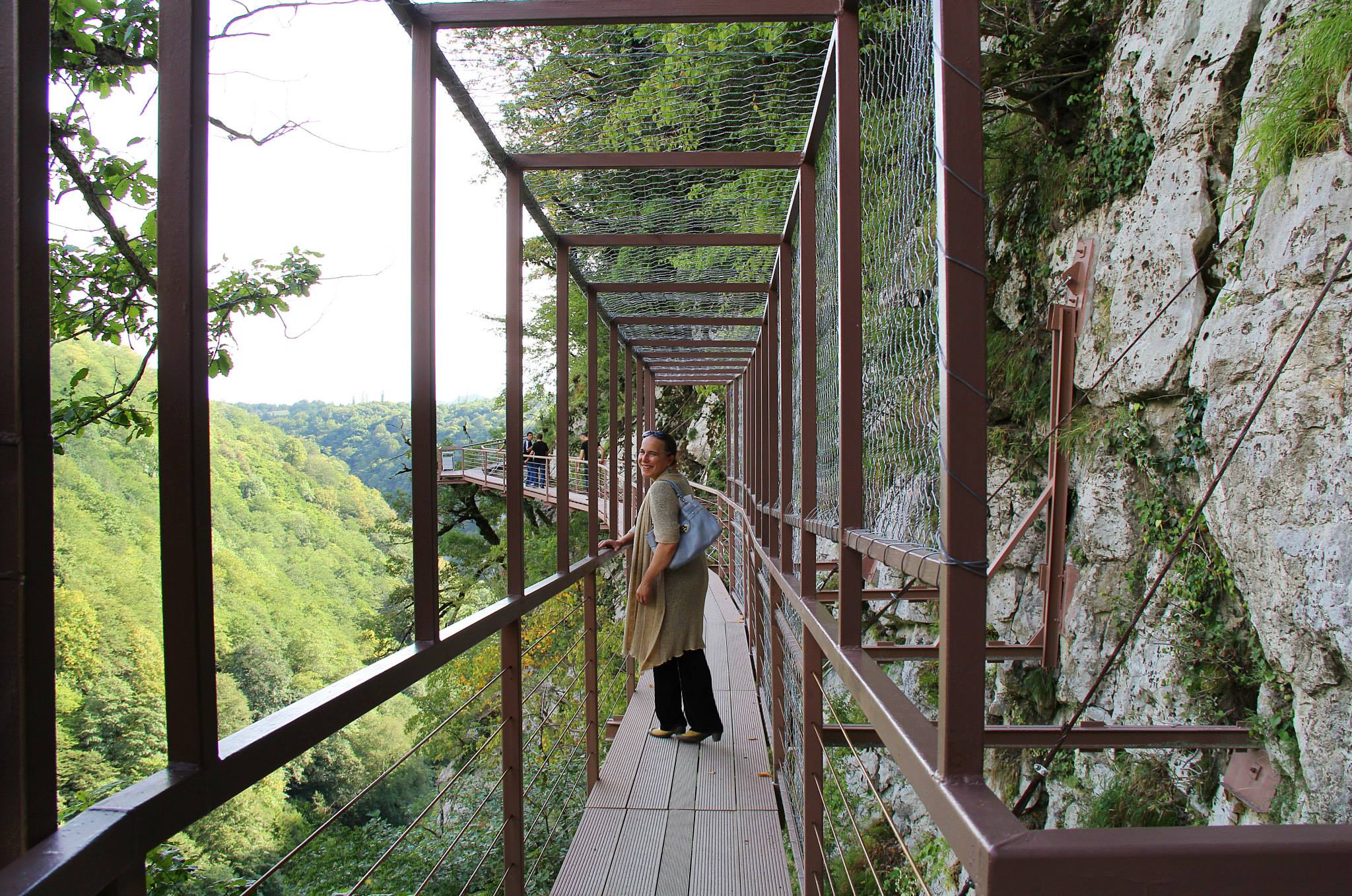 The Okatse canyon near the village of Gordi in Khoni Municipality, Imereti, Georgia.